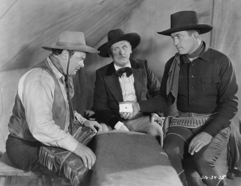 Photo of Victor McLaglan, Lew Cody, and Eddie Gribbon from the 1931 film Not Exactly Gentlemen (1931). The film was also known as Three Rogues.